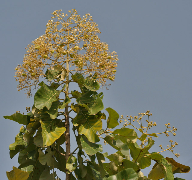 TeakTectona grandis at Ananthagiri Hills, in Rangareddy district of Andhra Pradesh, India.